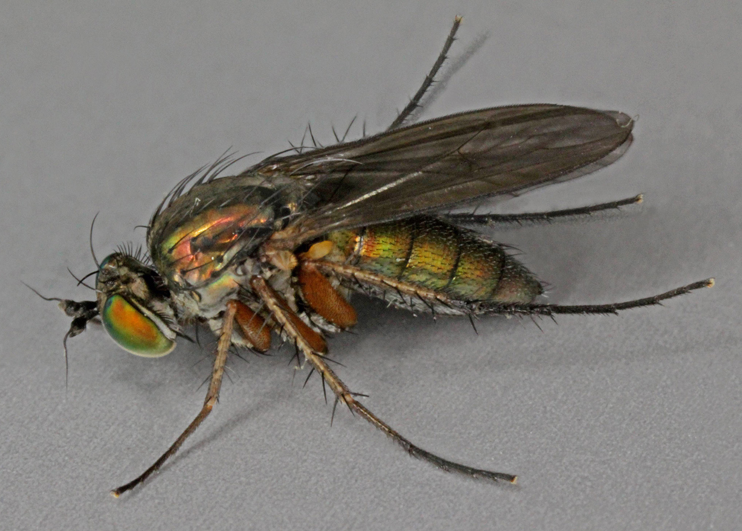 Dolichopus ungulatus female, Deeside, North Wales, July 2011